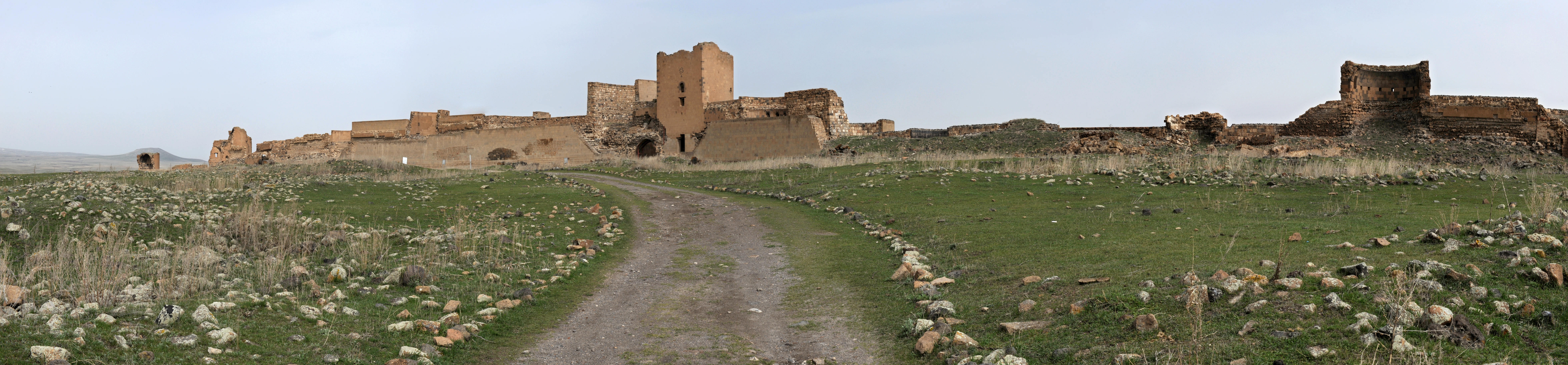 North wall of Ani, Turkey.